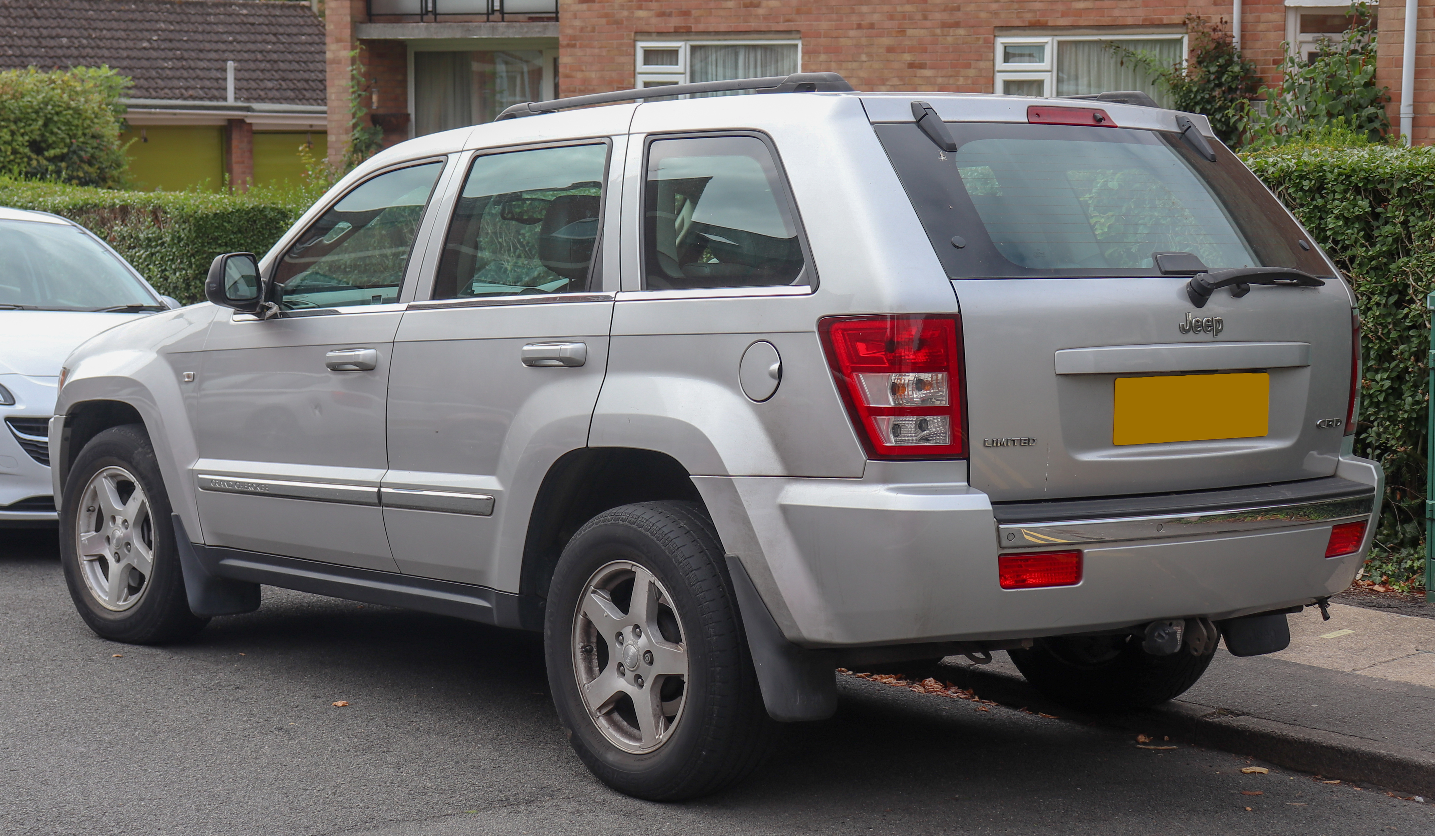 2006 Jeep Grand Cherokee CRD Limited Automatic 3.0 Rear Taken in Leamington Spa